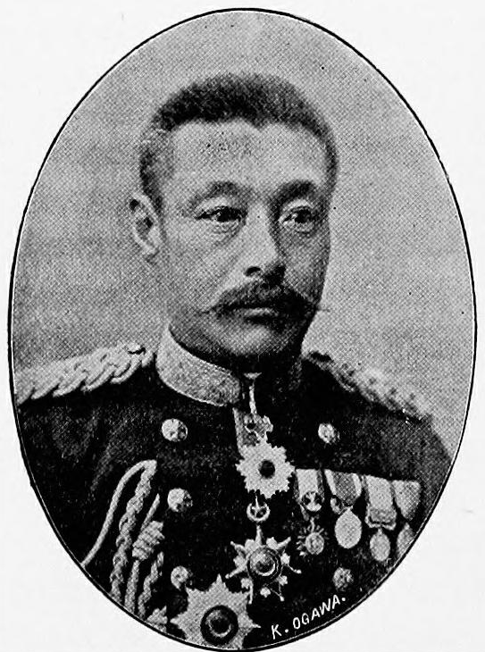 Major-General Oku